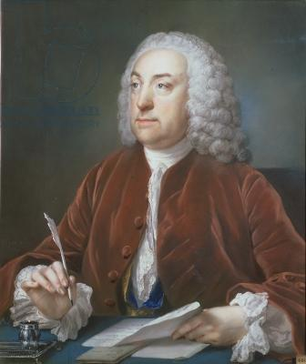 Portrait of Taylor White (1701-1772), Treasurer of the Foundling Hospital London, jurist, and art collector